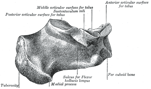 Left calcaneus, medial surface.